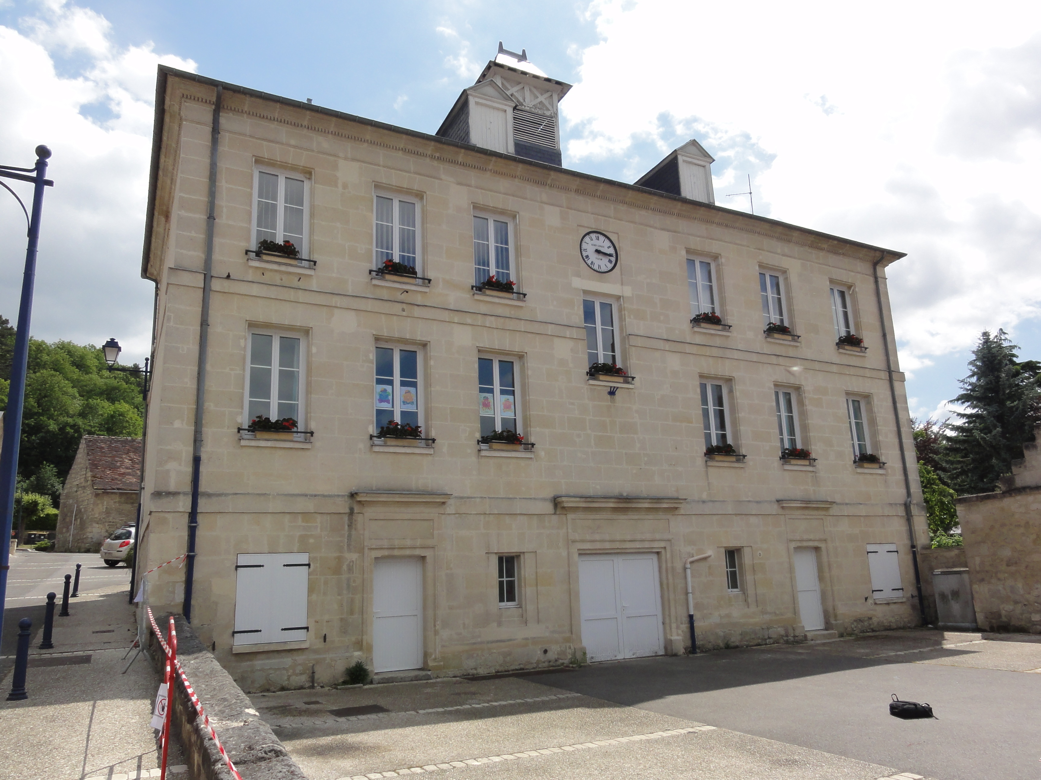 Ressons-le-Long (Aisne) école-mairie